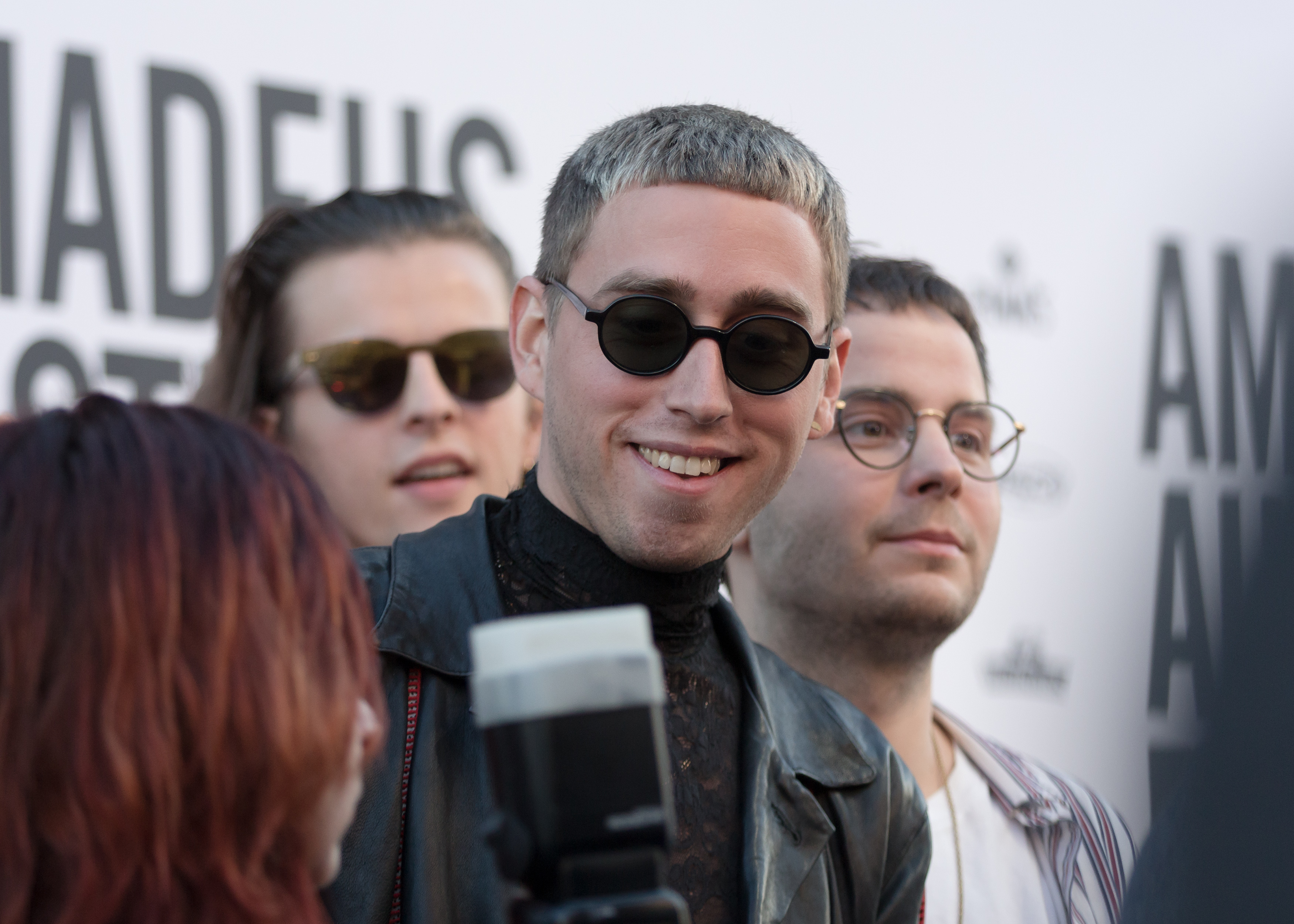 Bilderbuch at the Amadeus Austrian Music Award 2017 at Volkstheater in Vienna.